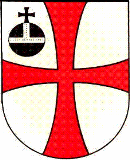 Blazon of Bottighofen, Canton of Thurgau, SwitzerlandEsperanto: Blazono de Bottighofen, Kantono Turgovio, Svislando